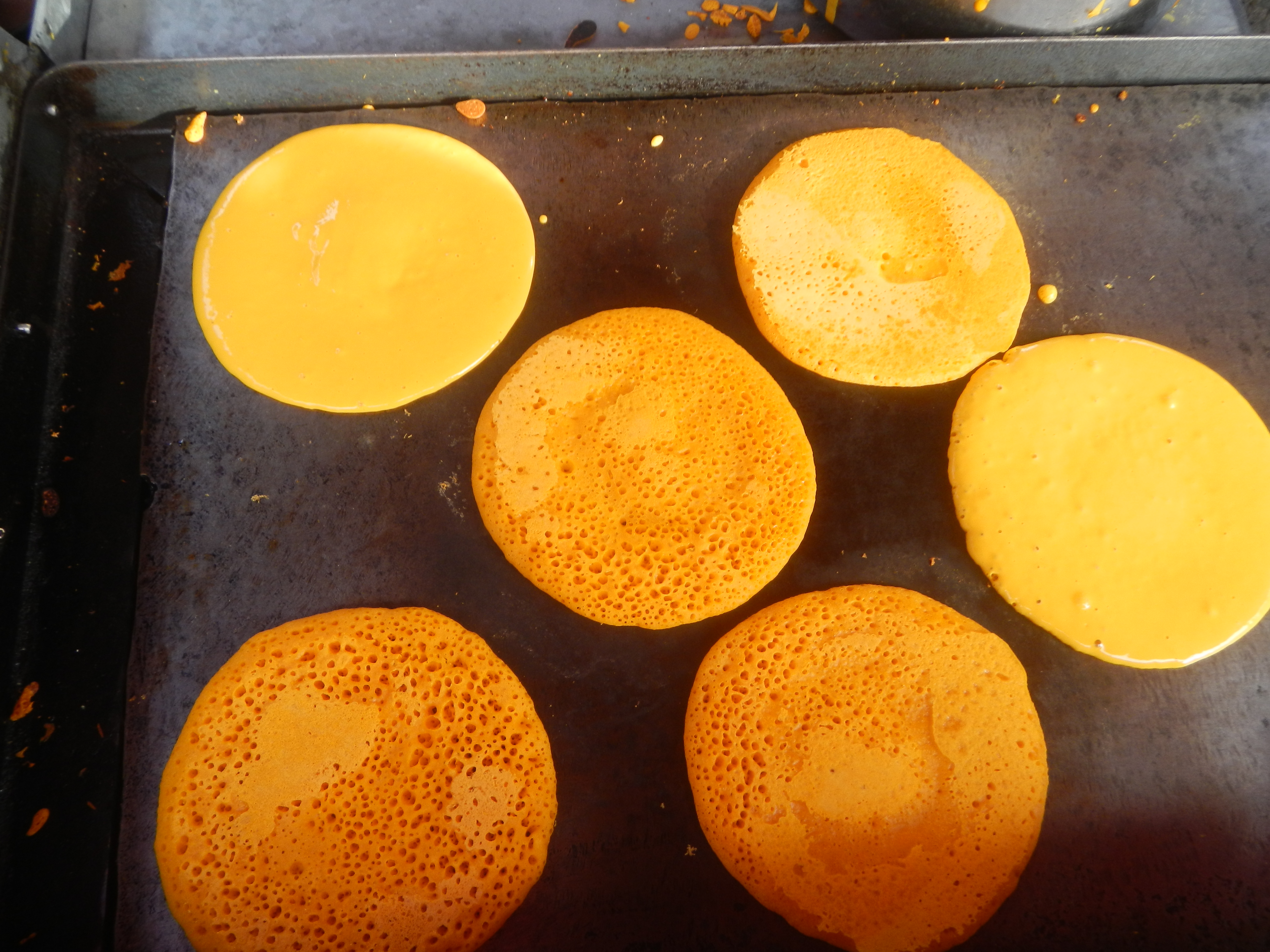 Cuisine and foods Barangay Poblacion 14°57'17"N 120°54'2"E, Baliuag, Bulacan, Bulacan province (Note: Judge Florentino Floro, the owner, to repeat, Donor Florentino Floro of all these photos hereby donate gratuitously, freely and unconditionally all these photos to and for Wikimedia Commons, exclusively, for public use of the public domain, and again without any condition whatsoever).